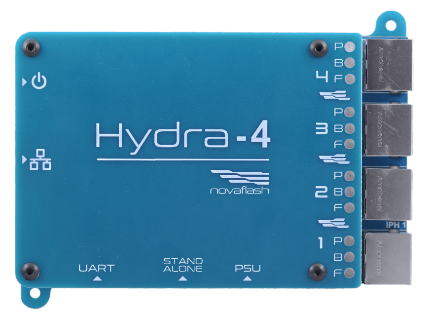 Parallel ISP Programmer Multichannel